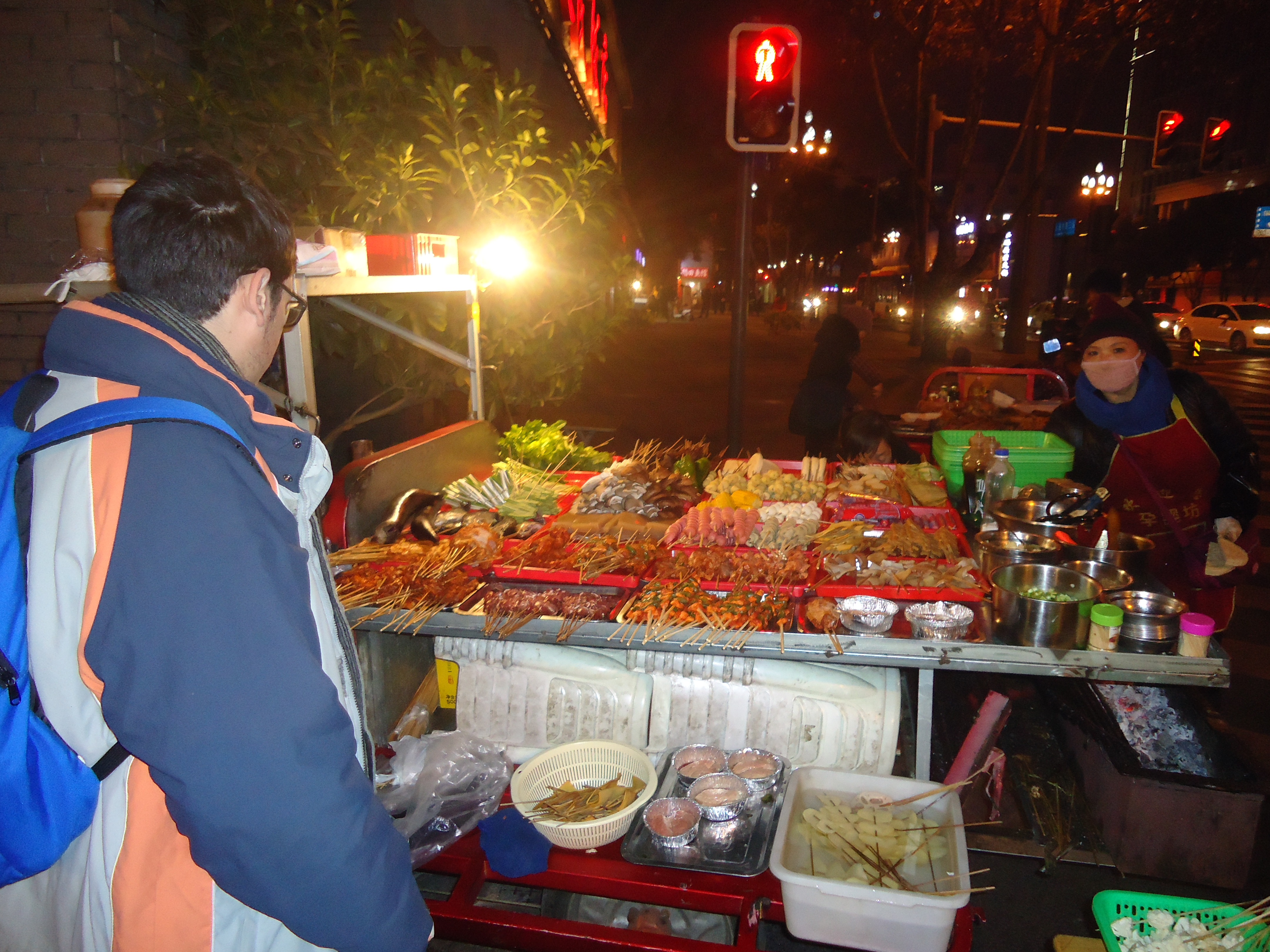 Man buying chuan in Chengdu (China).